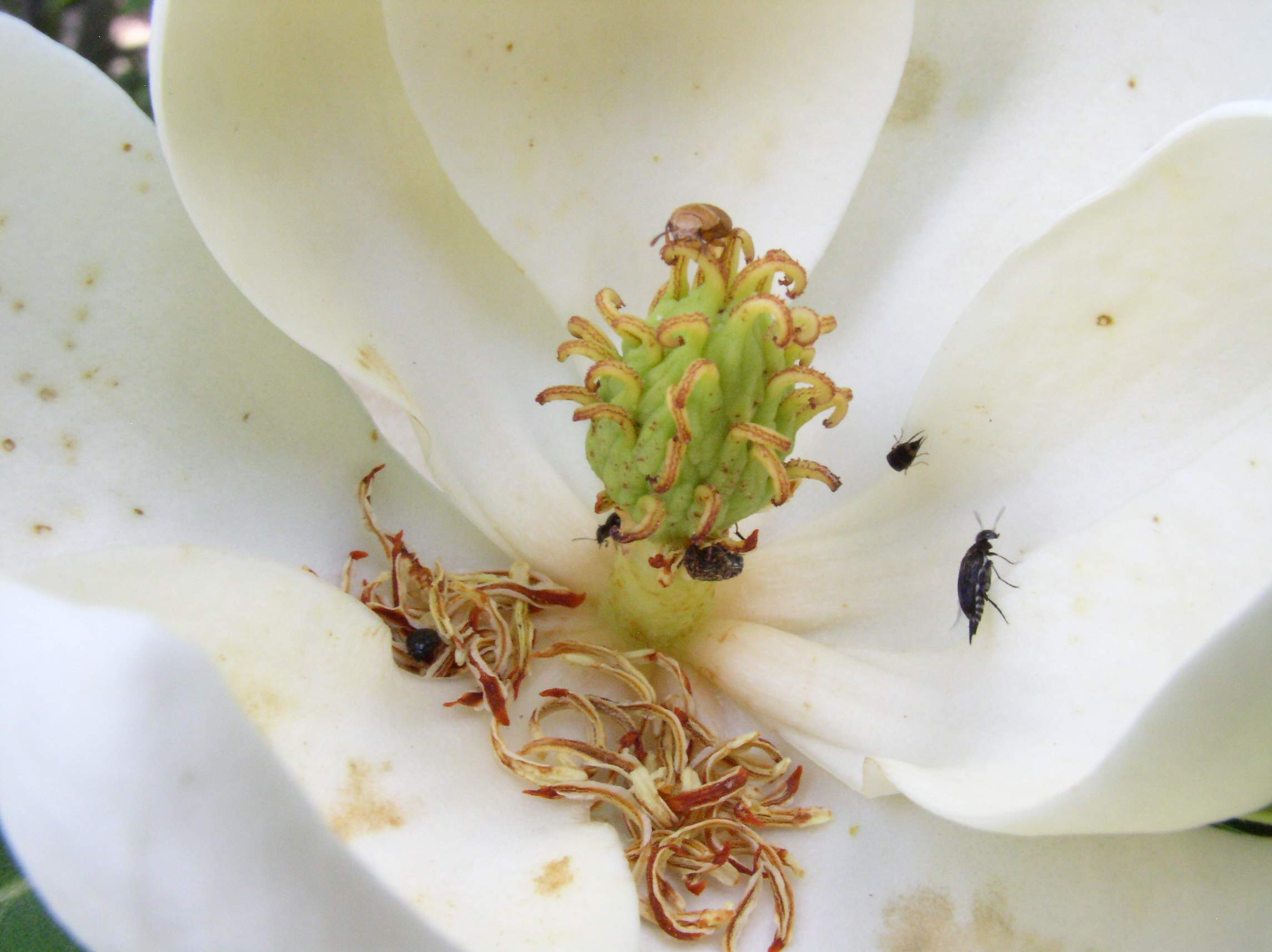 Magnolia and Mordellidae beetles, Mordellistena cervicalis, size: 6 mm. Churchville Nature Center, Bucks County, Pennsylvania, USA (